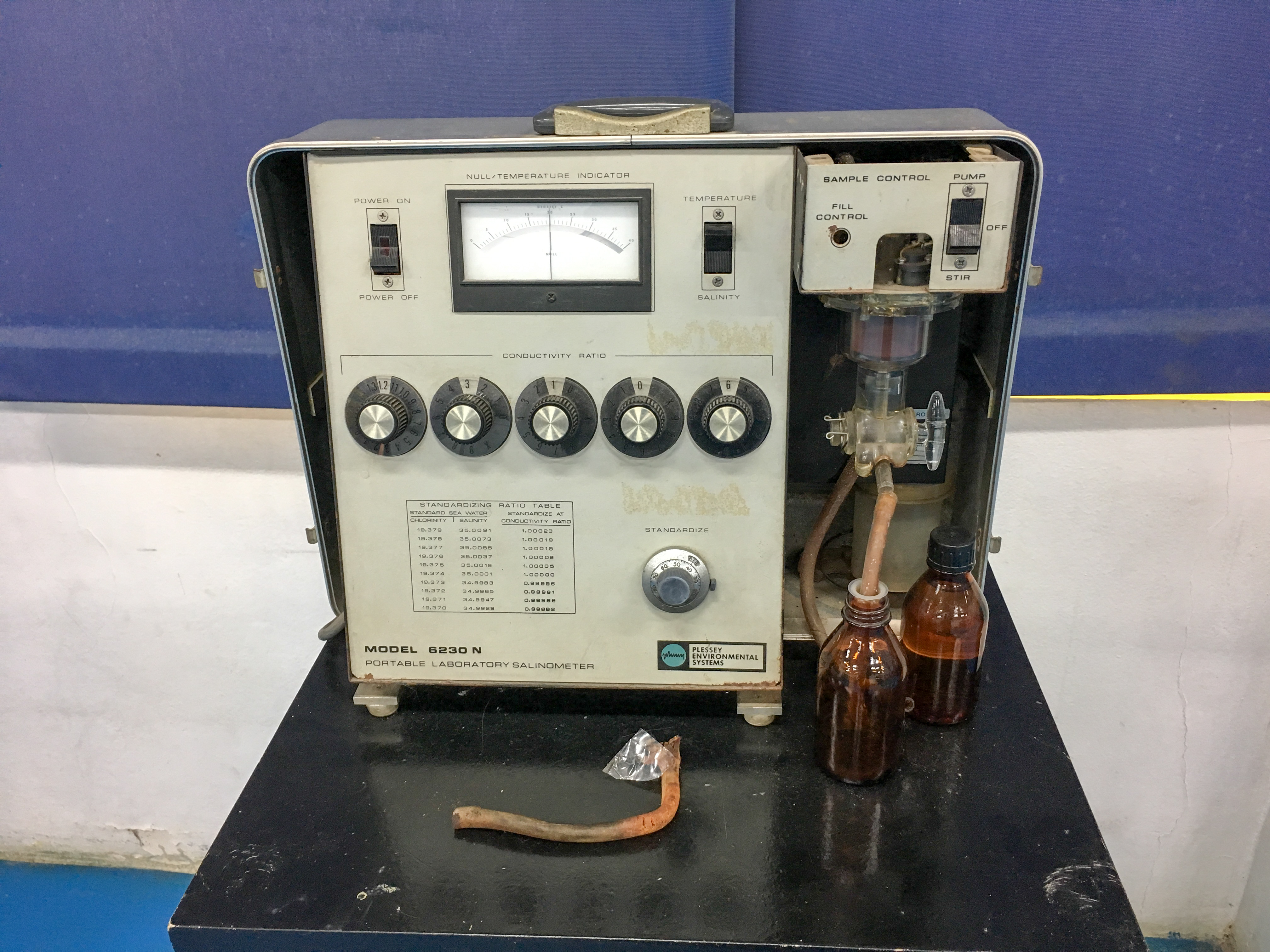 Inductive Salinometer. Museum of Oceanography, University of São Paulo, Brazil.